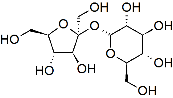 A representation of the structure of sucrose as shown on CAS Common Chemistry.